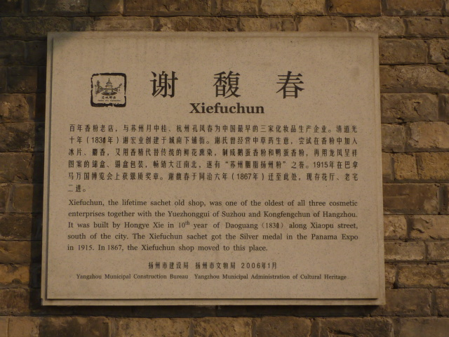 In the older, but refurbished neighborhoods of downtown Yangzhou around Christmas time.